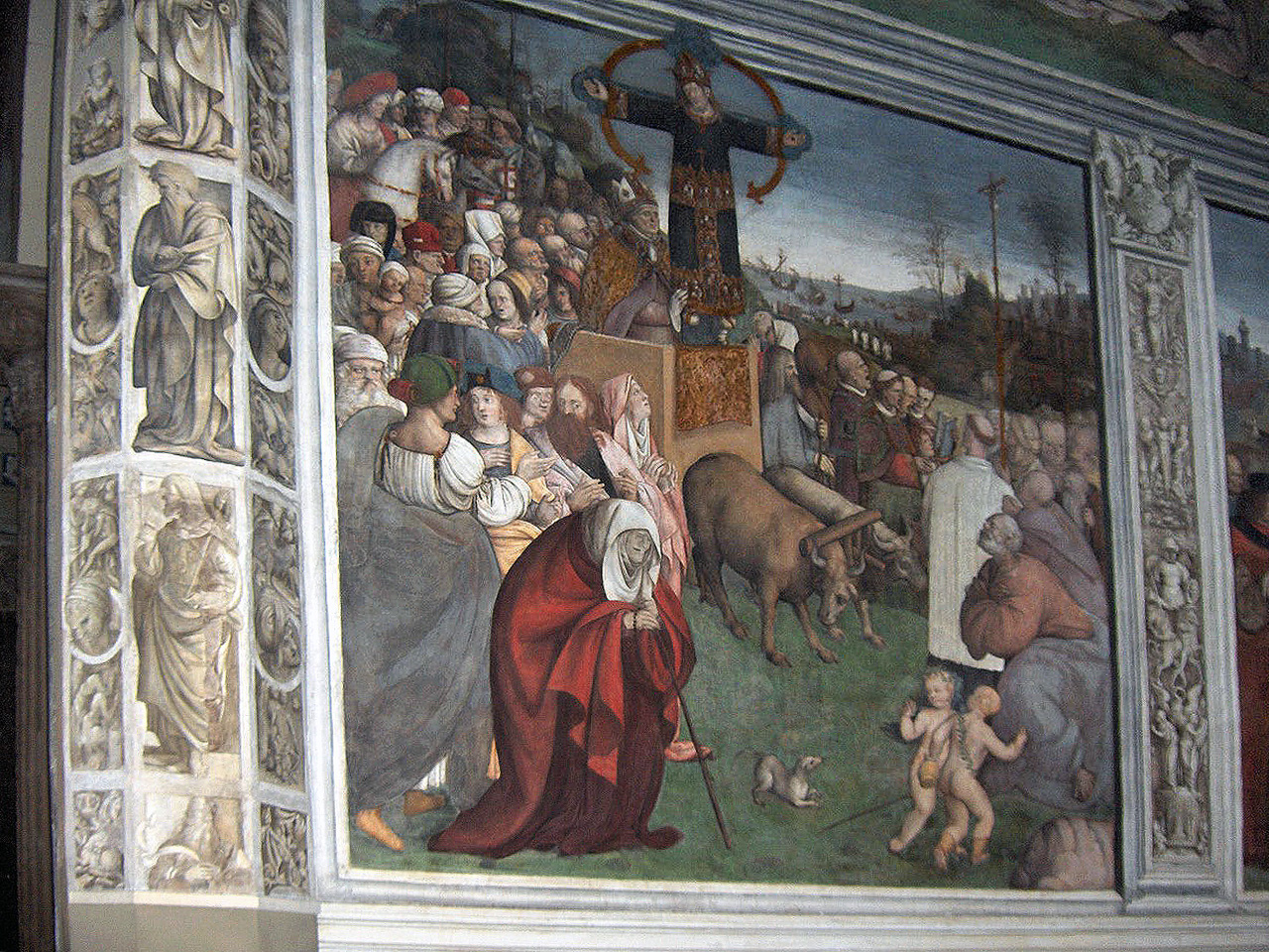 Amico Aspertini. Transportation of the Volto santo (in the chapel of the Cross); basilica of San Frediano; Lucca, Italy. Edited version of Image:Lucca.San Frediano11.JPG. ca. 1508. Own photo - photo made on 10 October 2005.